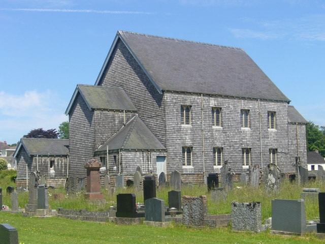 Blaenconin Baptist Chapel Llandysilio. Built in 1933. Unusually for this part of the world, the west and south faces are covered with wooden shingles.